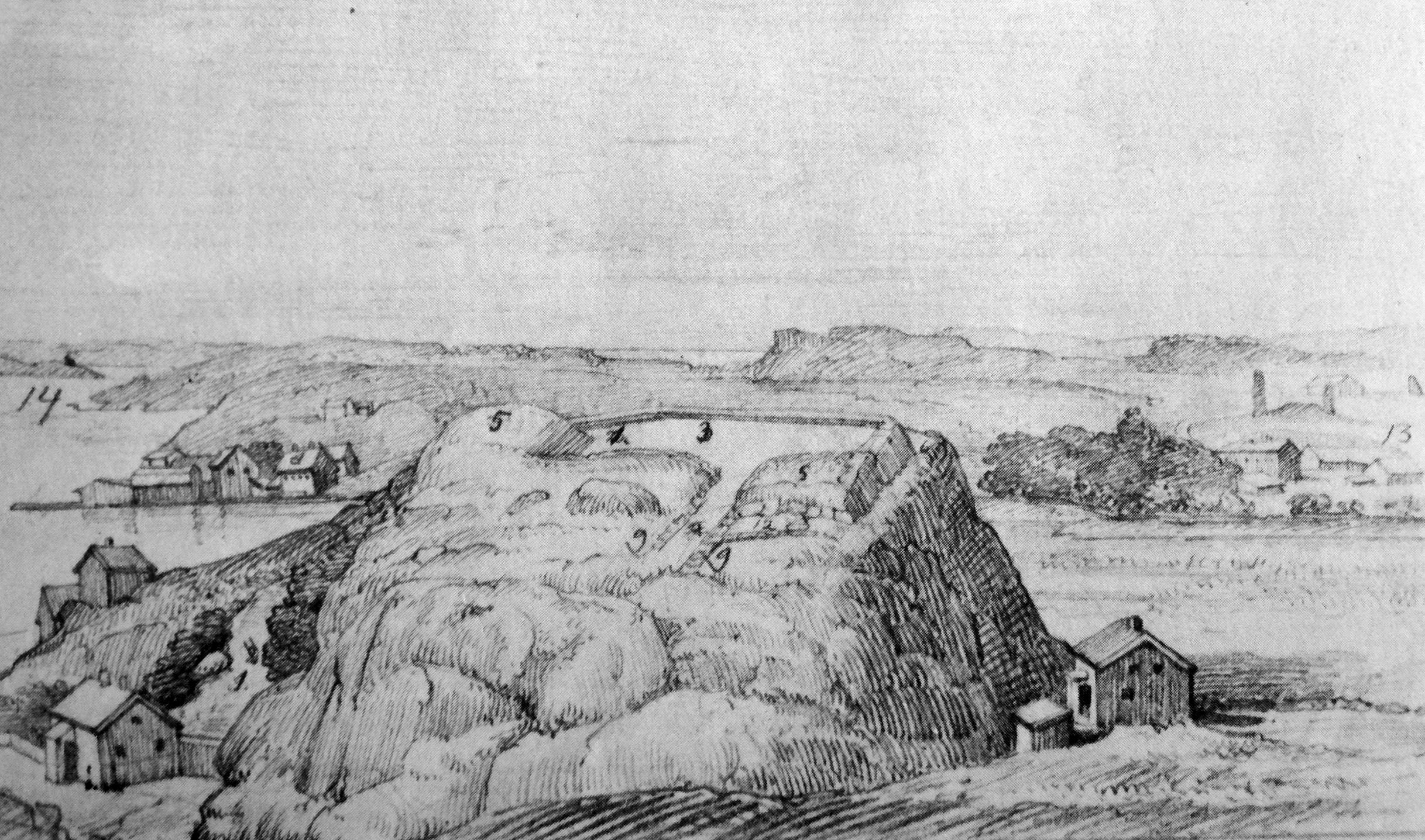 Drawing from the 1860´s of the ruins from Lindholmen castle, Gothenburg, Sweden.